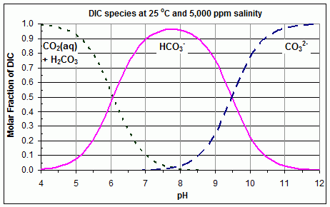 Distribution of DIC (Carbonate) species with pH for 25C and 5,000 ppm salinity (e.g. salt-water swimming pool) - Bjerrum plot